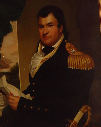 Portrait of Duncan McArthur, Governor of Ohio, hangs in room 108 of Ohio Statehouse. Oil on Canvas, 36 X 28 inches.